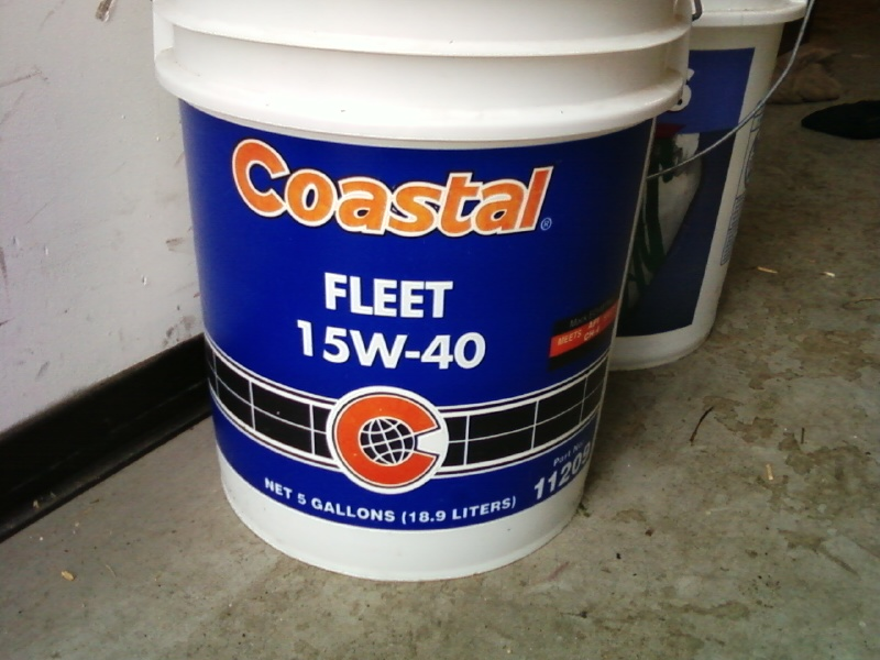 The Coastal Corporation 5 gallon bucket of automotive oil.